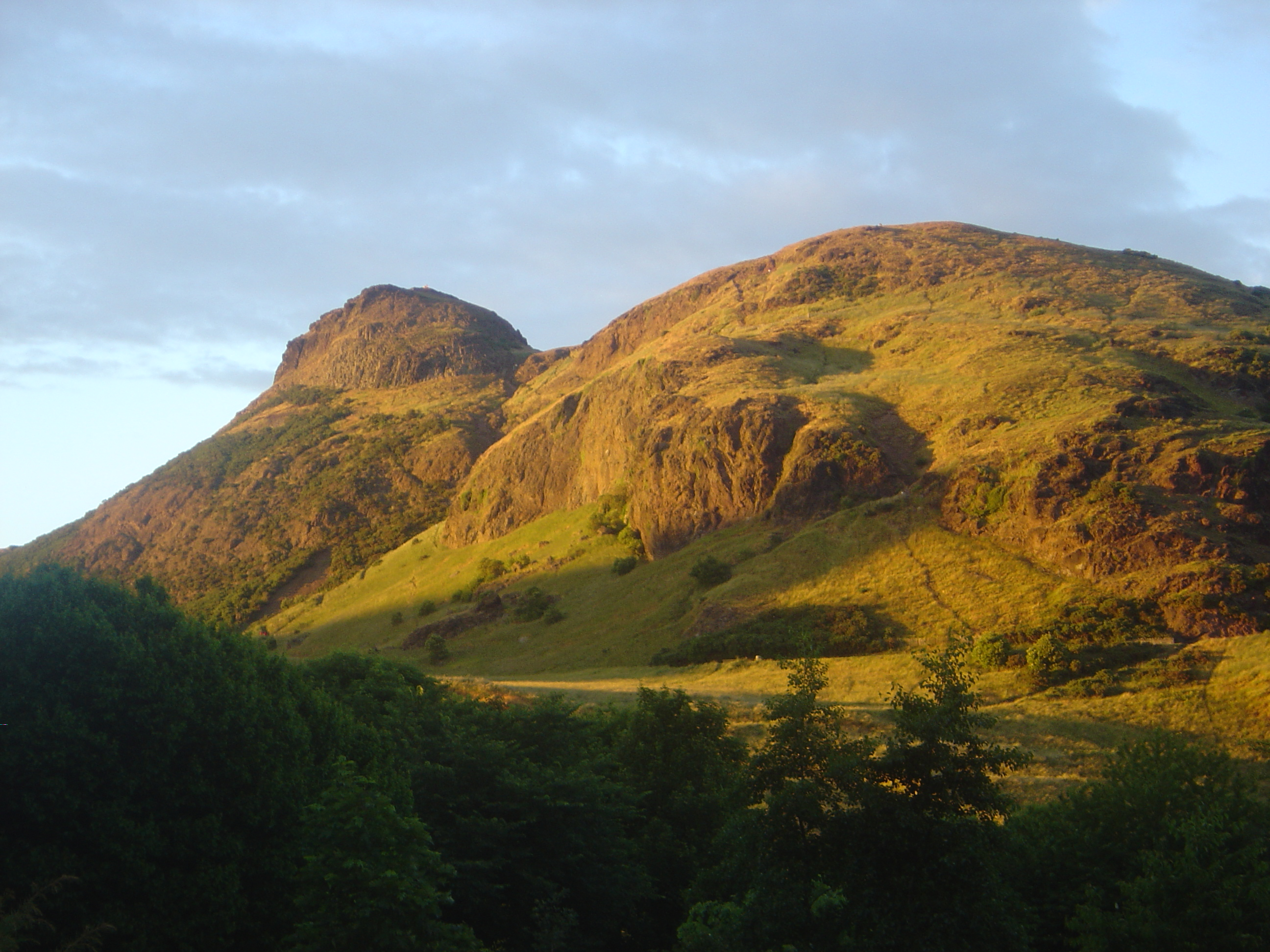 Arthur's Seat, Edinburgh, viewed from Pollock Halls.